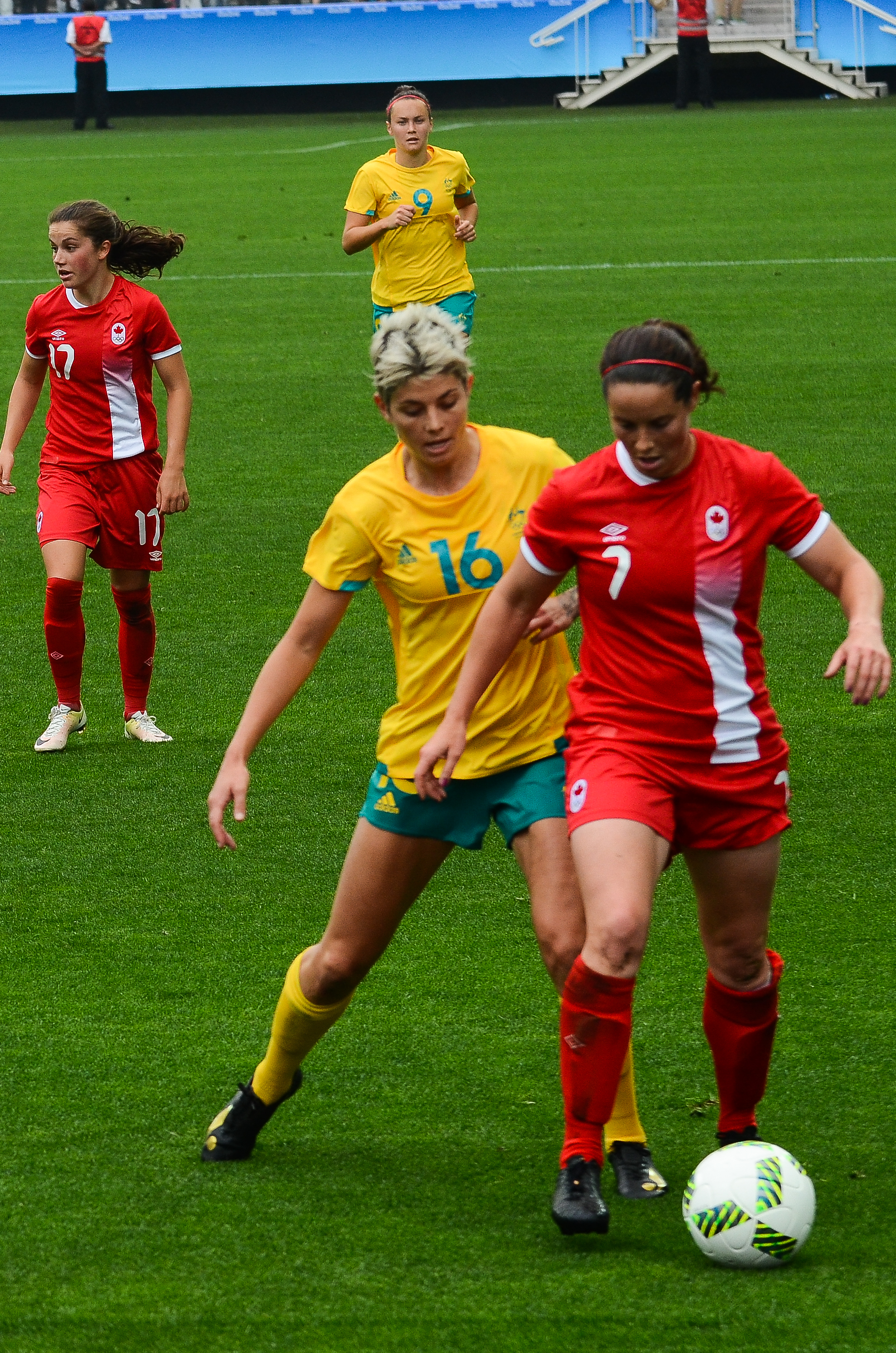 Canada versus Australia at the 2016 Summer Olympics, 3 August 2016.